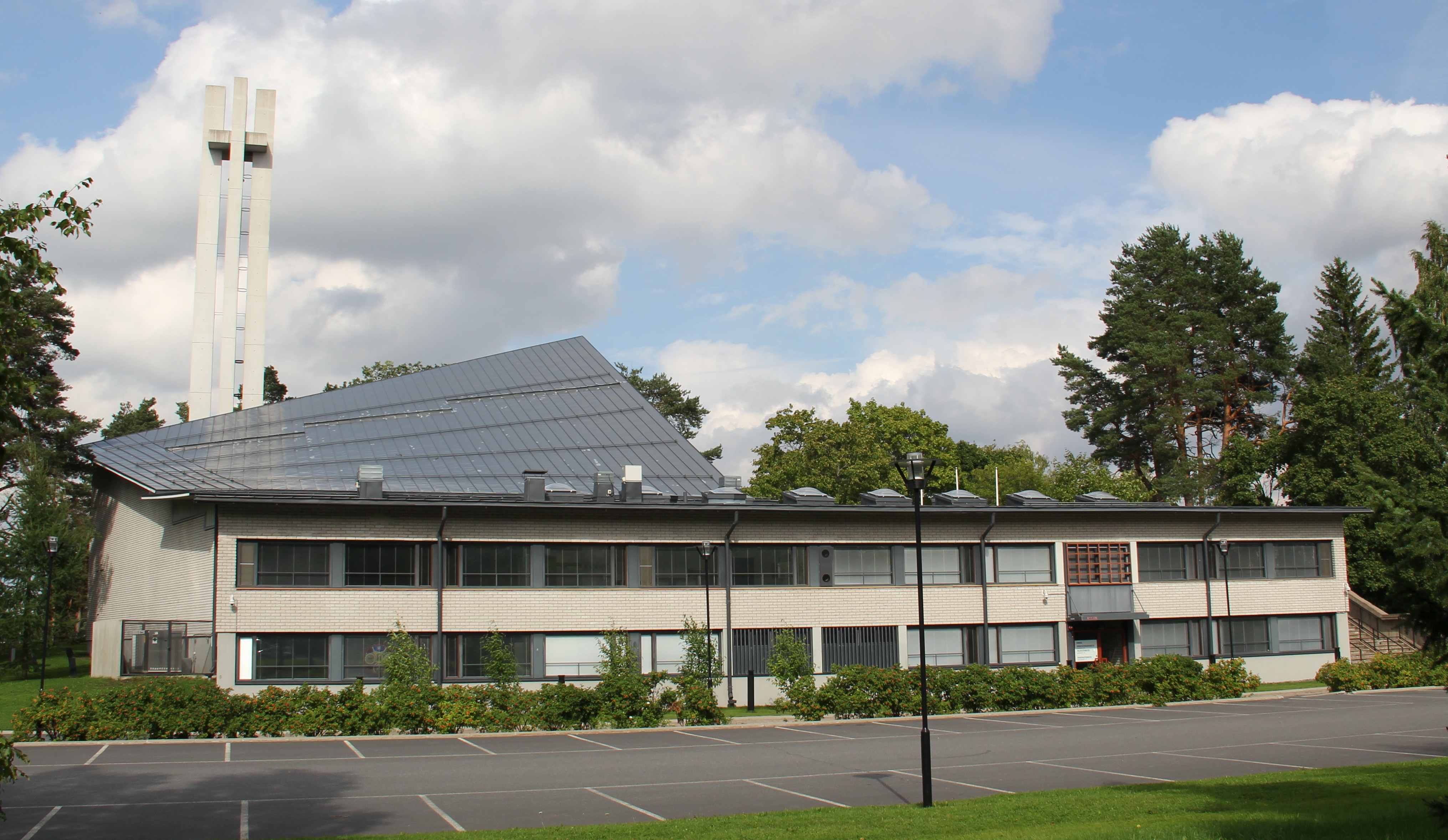 Loimaa town church in Loimaa, Finland. Completed in 1973. Architect Reino Lukander.